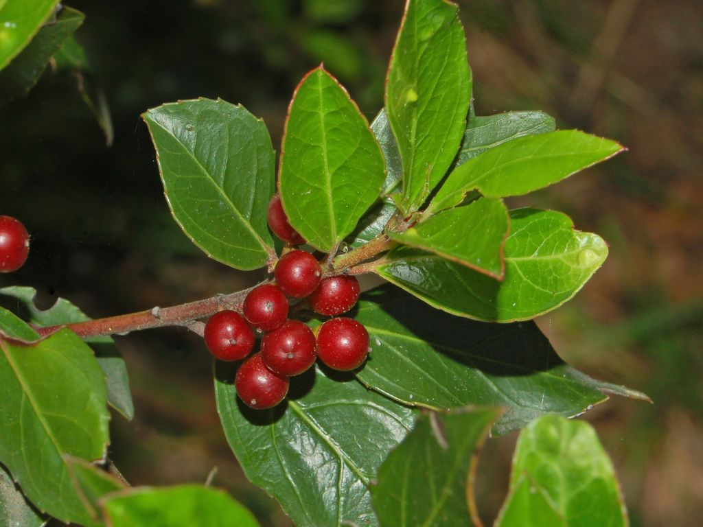 Rhamnus alaternus - Genova, Italy